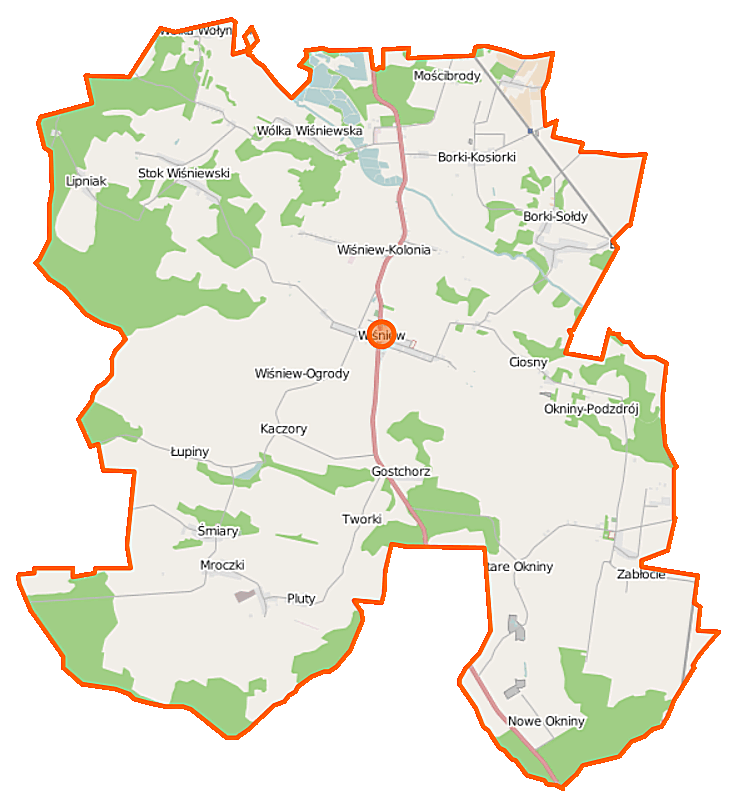 Map of Gmina Wiśniew, Poland This map of Wiśniew (gmina) was created from OpenStreetMap project data, collected by the community. This map may be incomplete, and may contain errors. Don't rely solely on it for navigation. Border coordinates52.129722.1903←↕→22.393951.9933